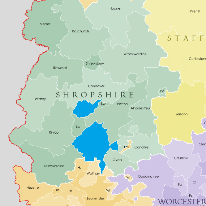 A map showing hundreds and counties, as they were in 1086, with the hundred of Culvestan shown in blue.